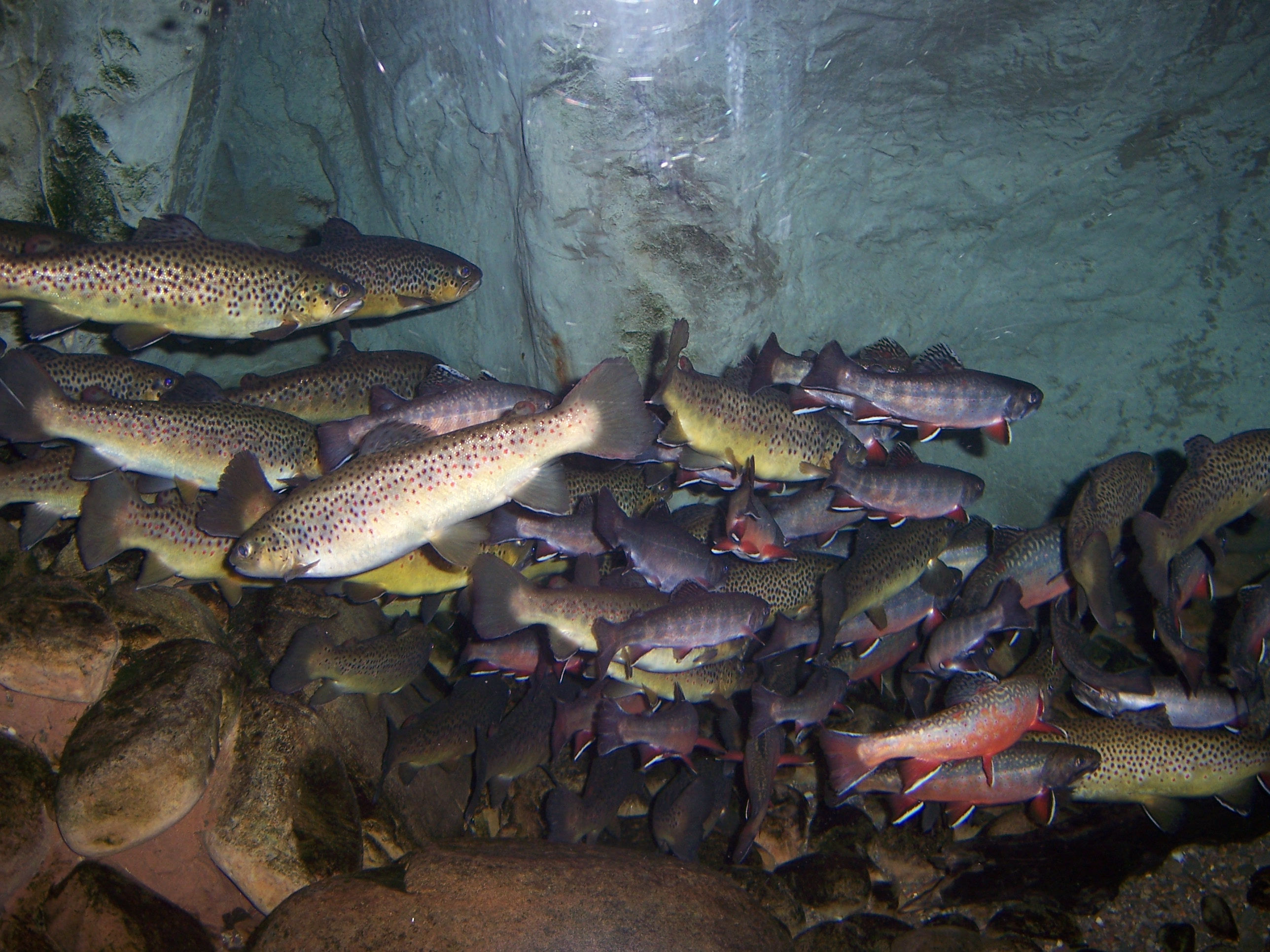 Brook trout, brown trout and rainbow trout on exhibit at the Tennessee Aquarium, Chattanooga, TN